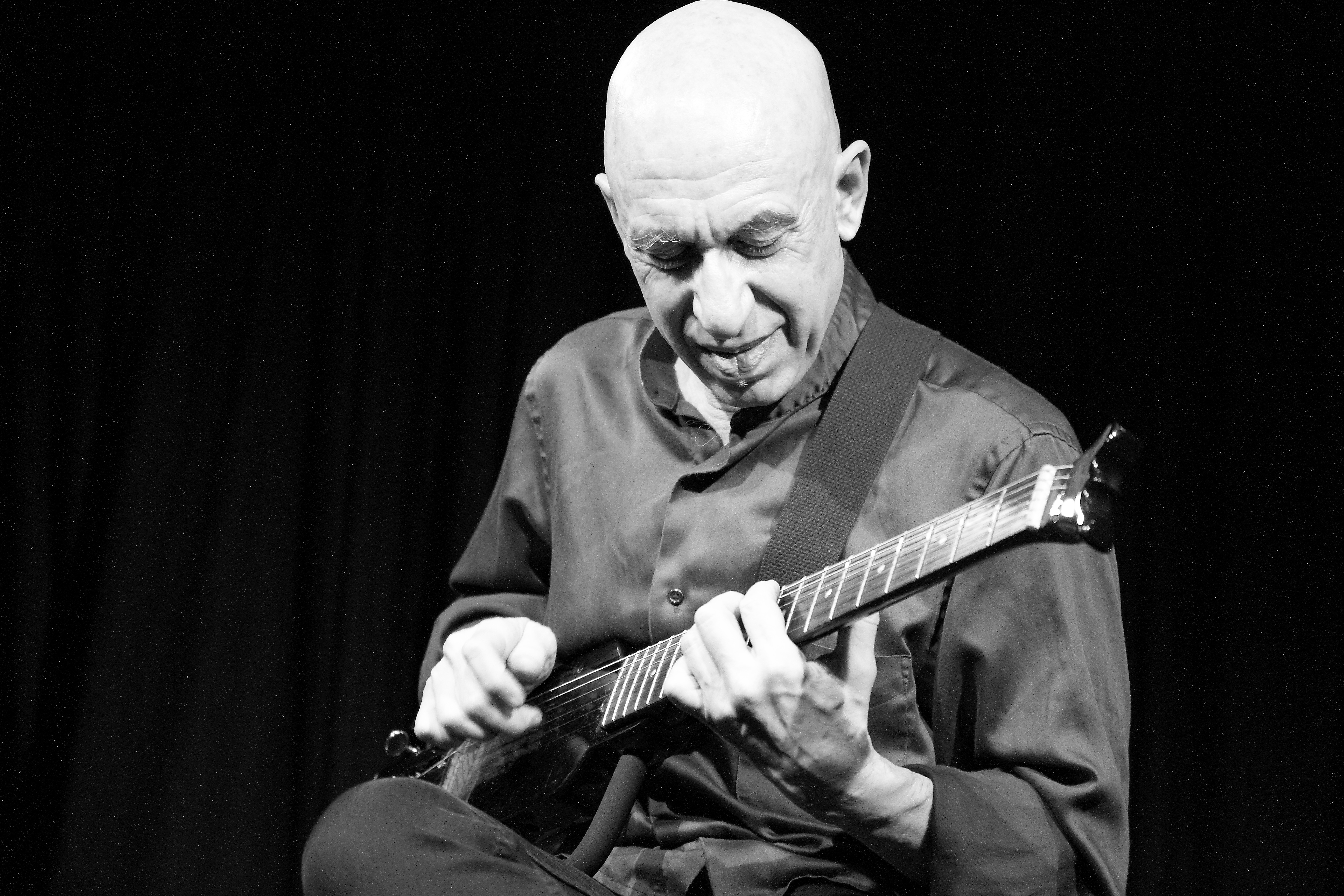 Elliott Sharp in concert at Club W71, Weikersheim.